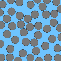 Random Sequential Adsorption Disks1